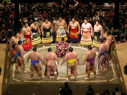 Sumo wrestlers performing dohyo-iri taken from Contributor: Nickdrj released into public domain by author